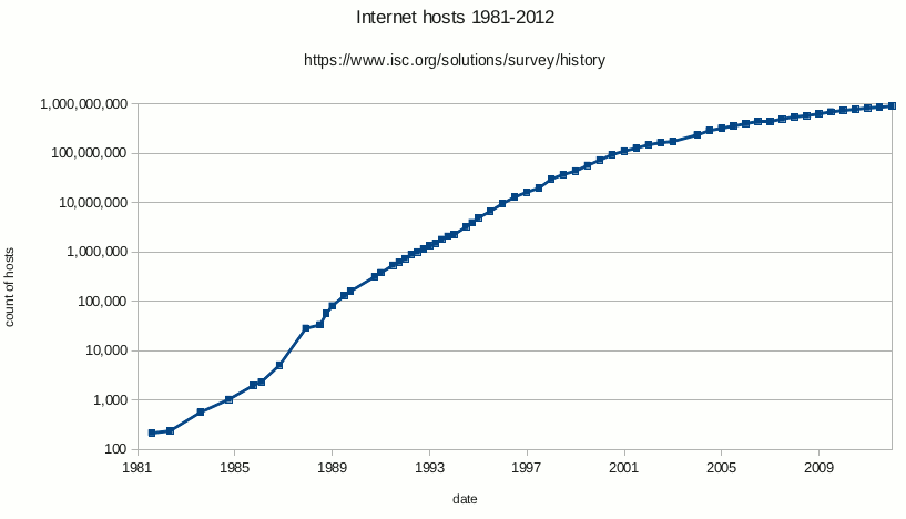 This chart shows the count of internet hosts from from 8/1/81 through 1/1/2012, with a log scale for representing the number of hosts and linear scale for time.